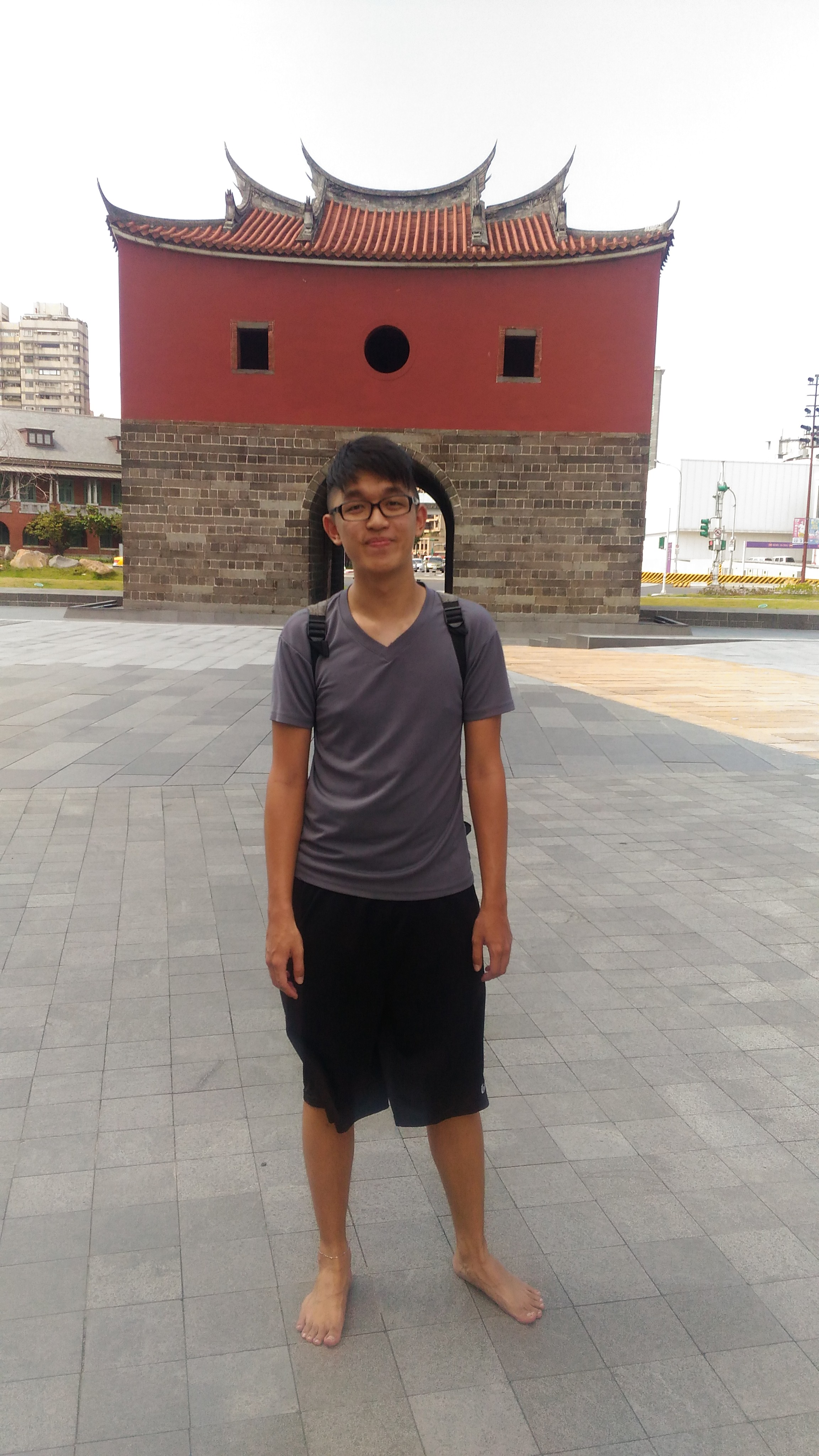 Barefooter